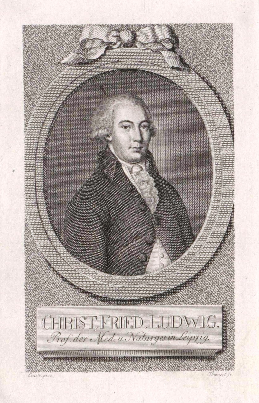 Portrait of Christian Friedrich Ludwig (1757-1823)